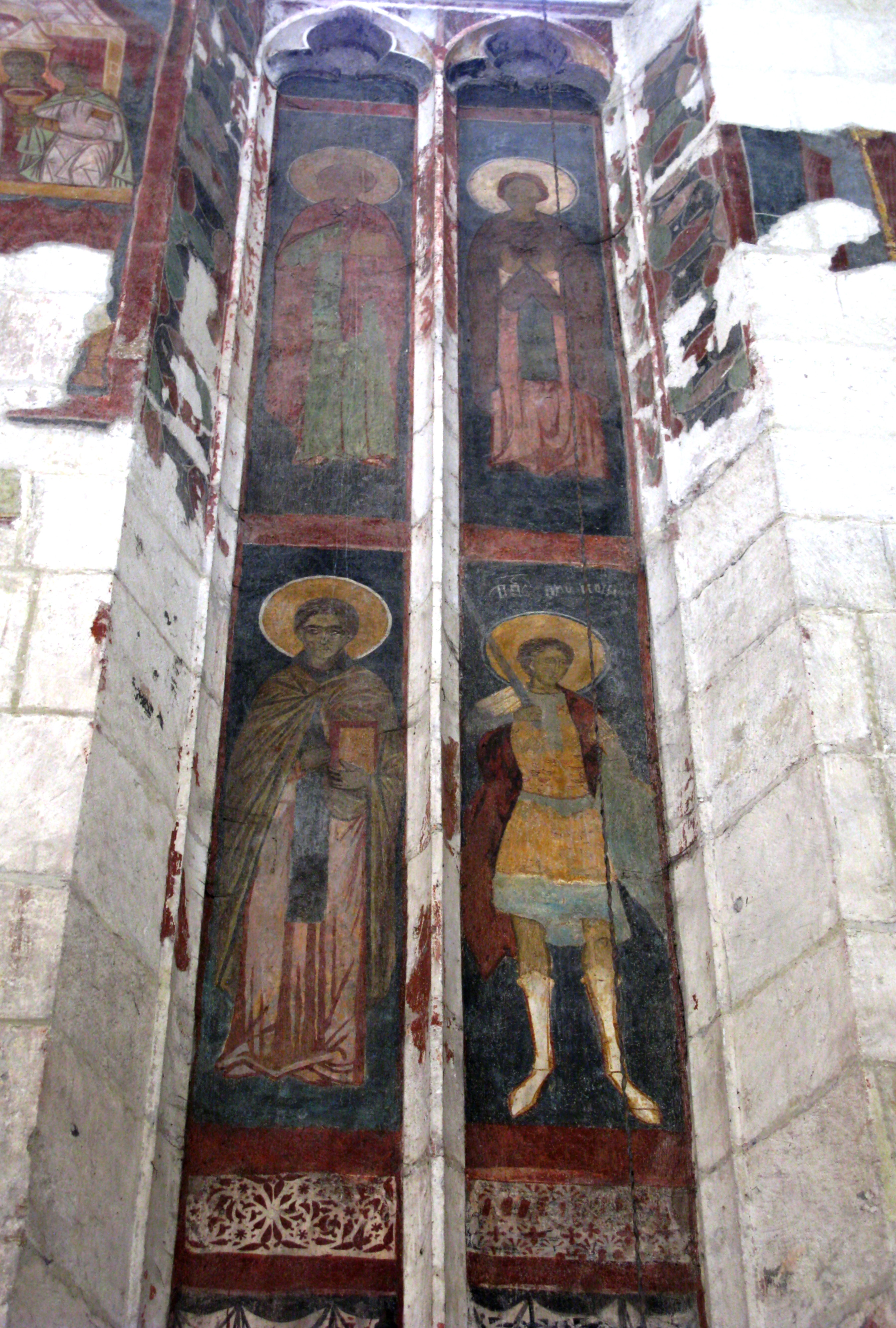 Ruthenian-Byzantine frescoes in Basilica of the Birth of the Blessed Virgin Mary in Wiślica